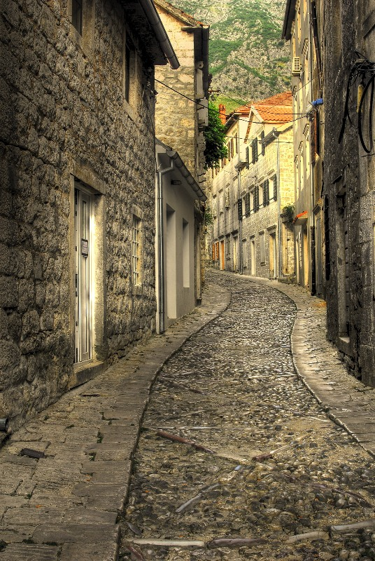 Gabela, old turkish street in Risan.